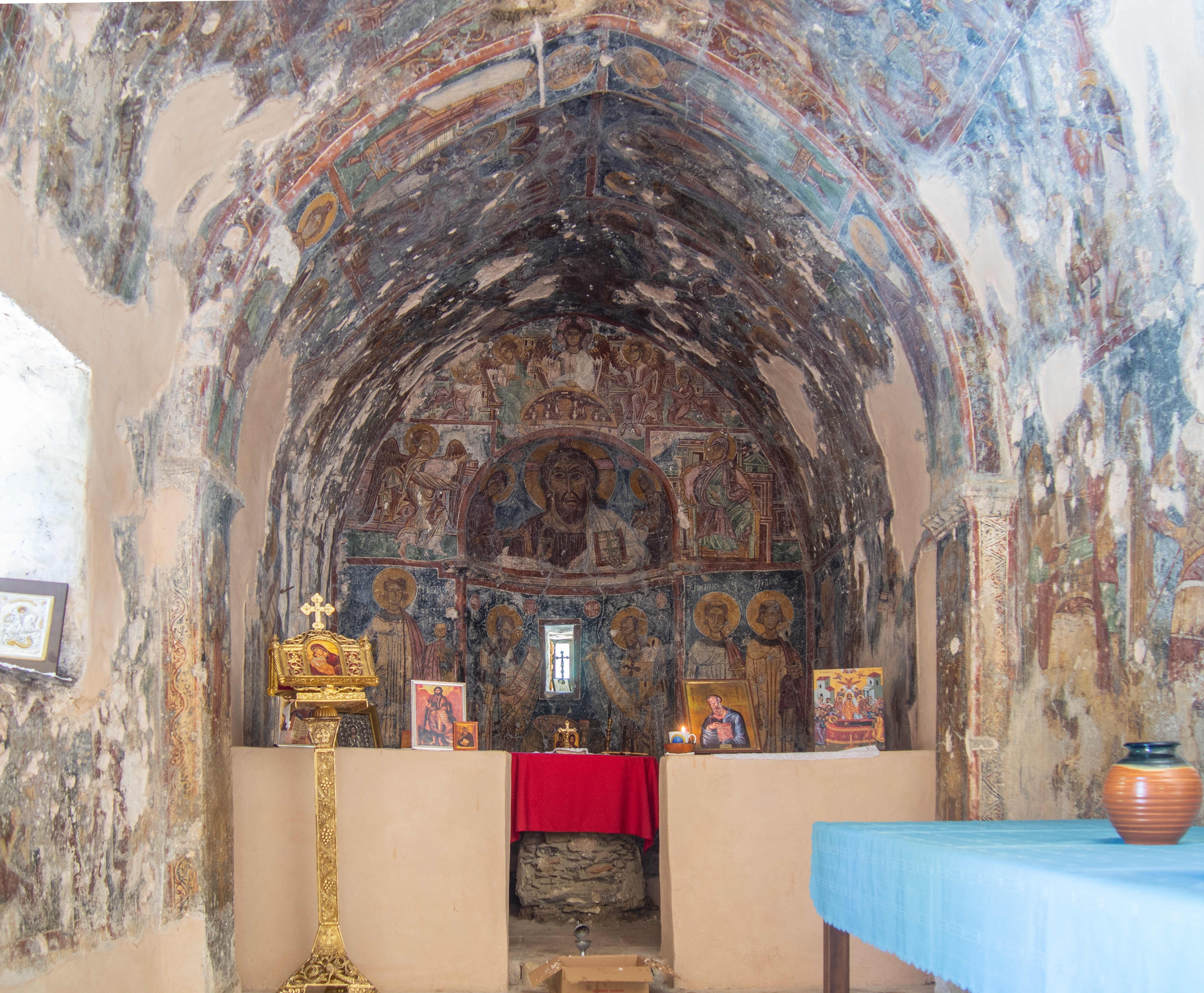 The 14th century of Saint John the Theologian at Elos, Crete. The frescos inside date from early 14th century and are attributed to Ioannis Pagomenos.